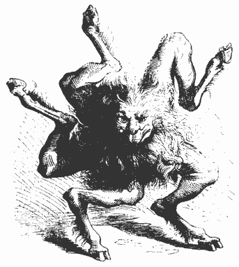 Buer is a president of hell and a demon of the second order who commands 50 legions, from J.A.S. Collin de Plancy. Dictionnaire Infernal. Paris: E. Plon, 1863. Page 123. Note: A demon of the second class, presiding over hell; he is formed like a star or wheel with 5 limbs and moves by rolling. He teaches philosophy, logic and the virtues of medicinal herbs.